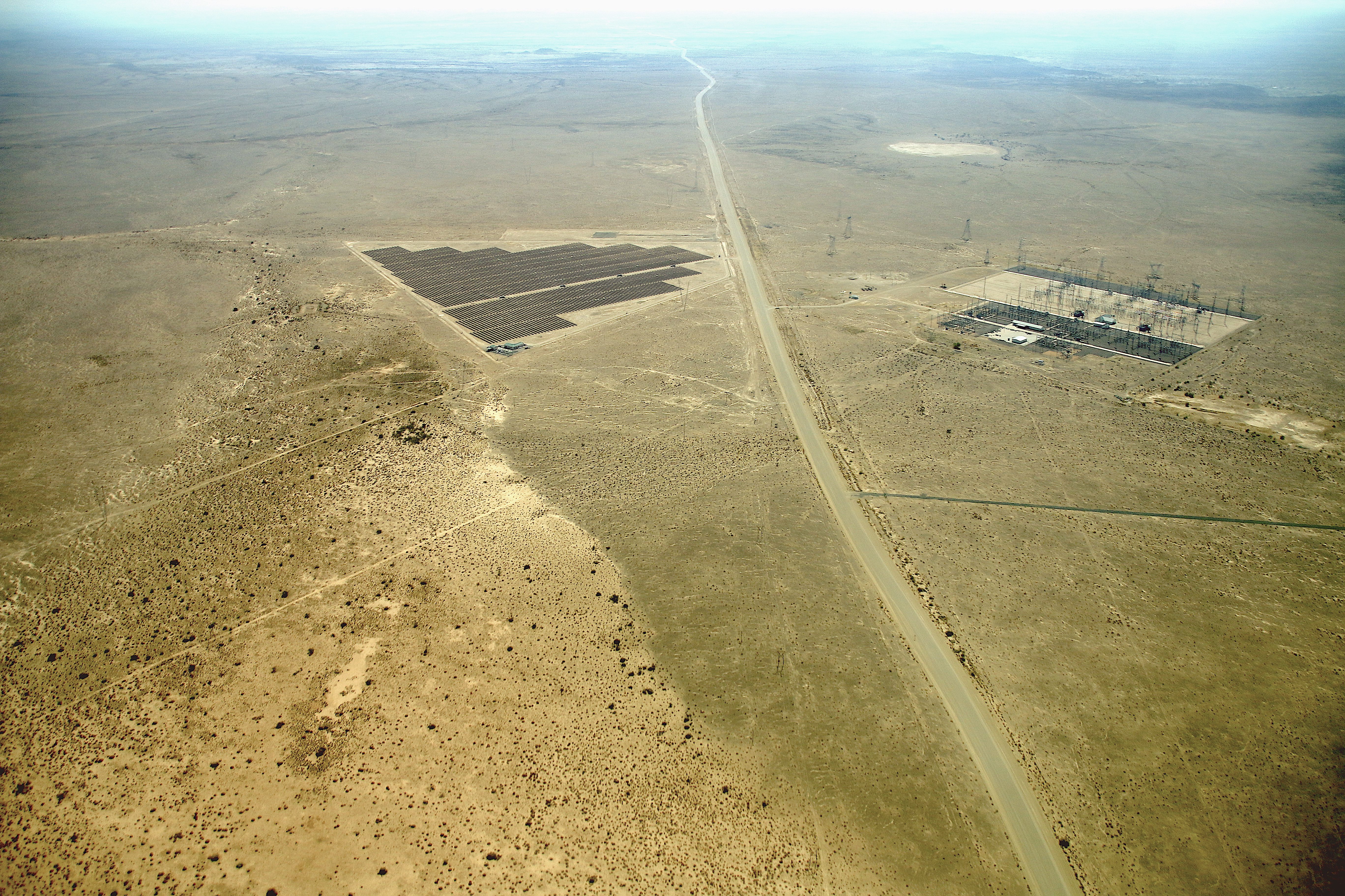 Solarpower Keetmanshoop